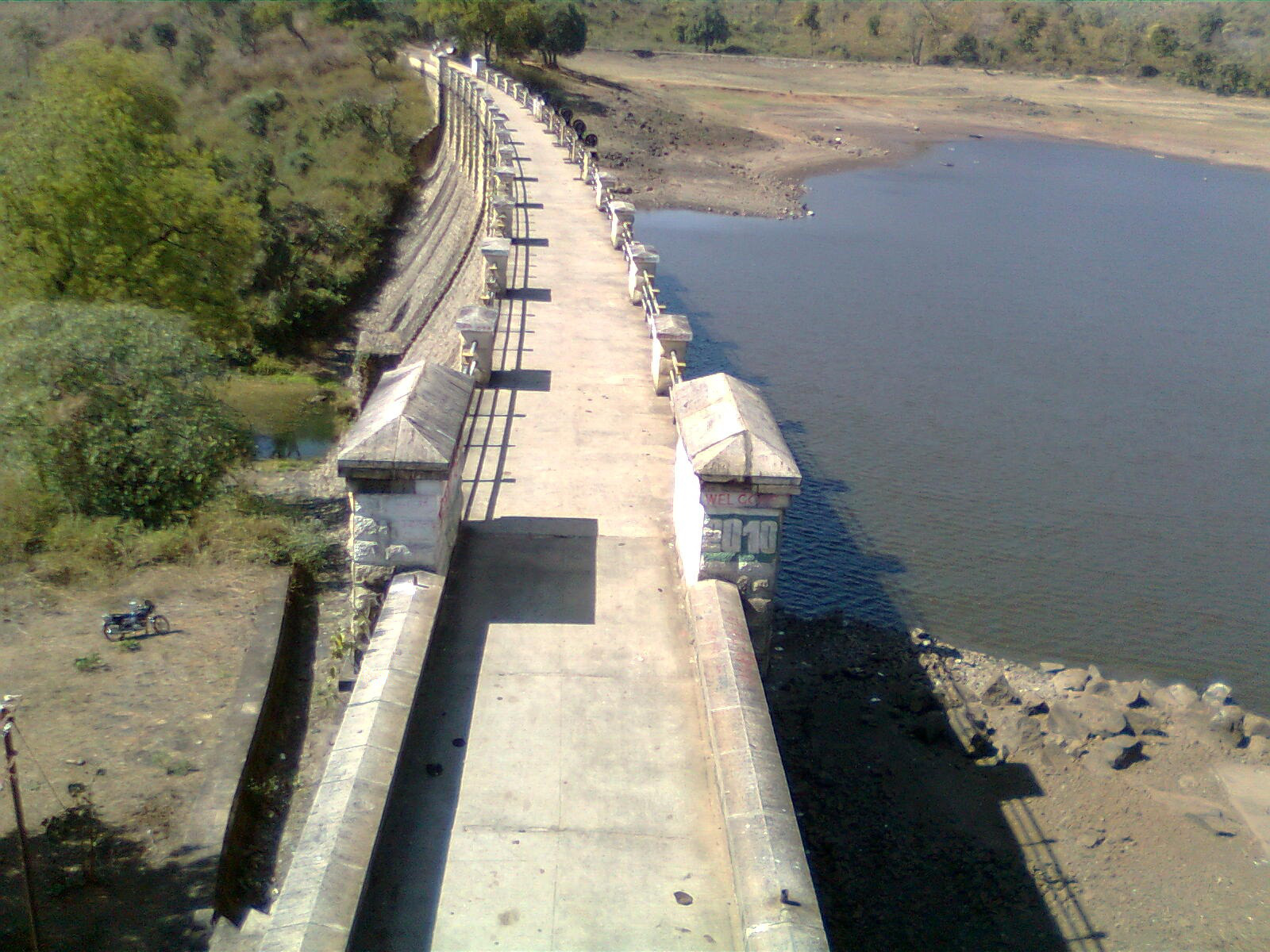 Topchanchi Lake is very beautiful Lake Situated in the scenery of Shikherji.